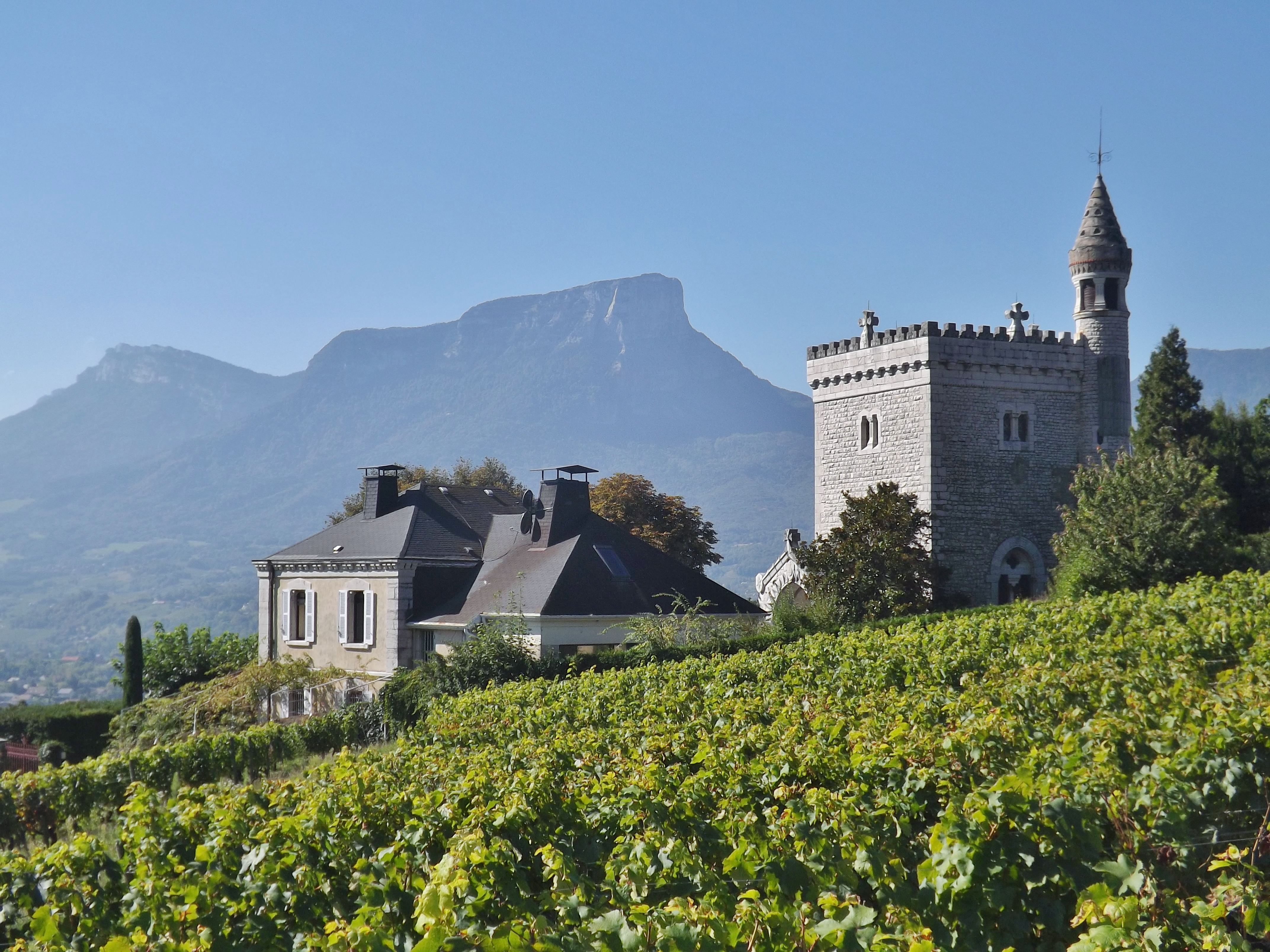 Sight of the clos Saint-Anthelme tower, in the vineyards of Chignin near Chambéry, in Savoie, France.